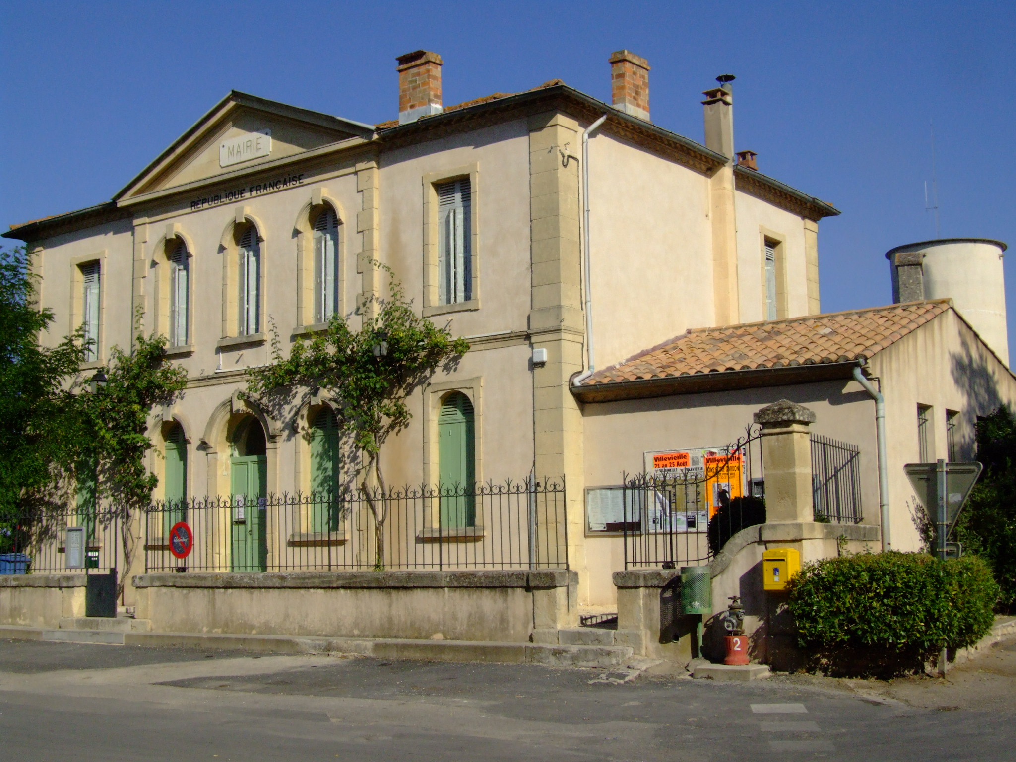 Villevieille is village in the department of Gard, France, some 2km north east of Sommières. Mairie.